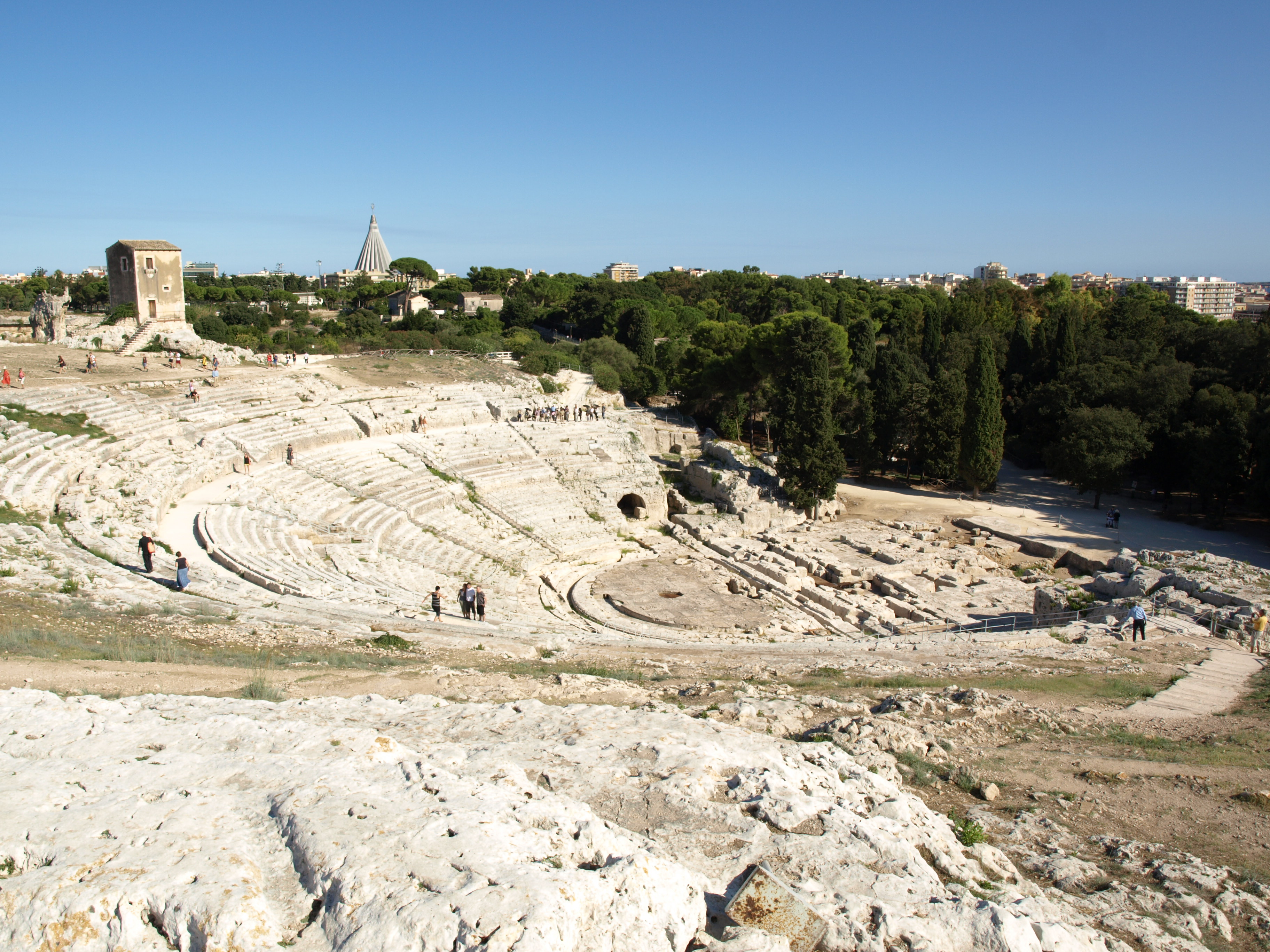 The cupola of the Shrine of Our Lady of Tears can be seen in the distance.